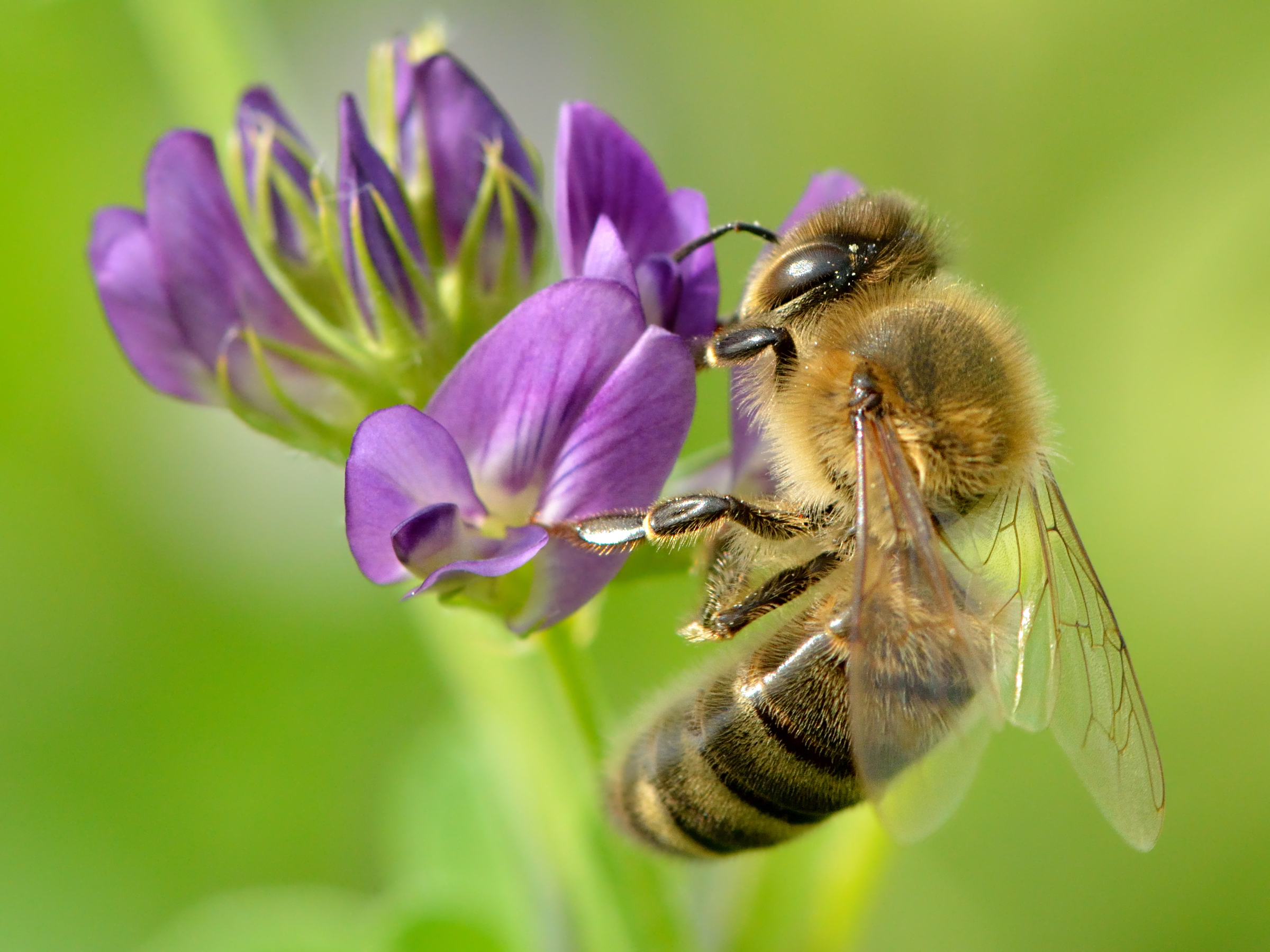 Honey bee (Apis mellifera) pollinates alfalfa (Medicago sativa). Valingu, Northwestern Estonia.